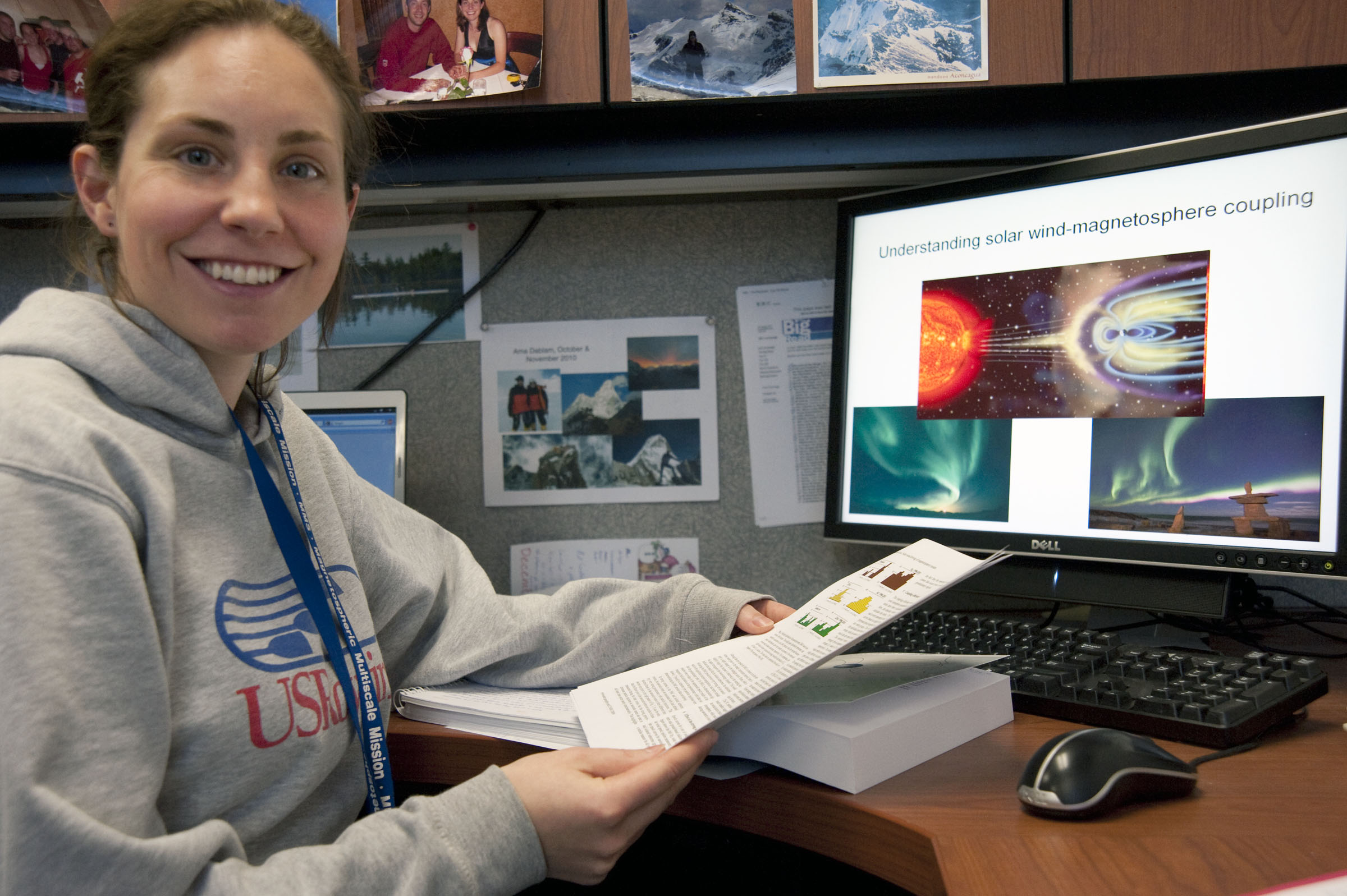 Suzie Imber at her desk at NASA's Goddard Space Flight Center in Greenbelt, Md., where she researches Earth's magnetosphere.